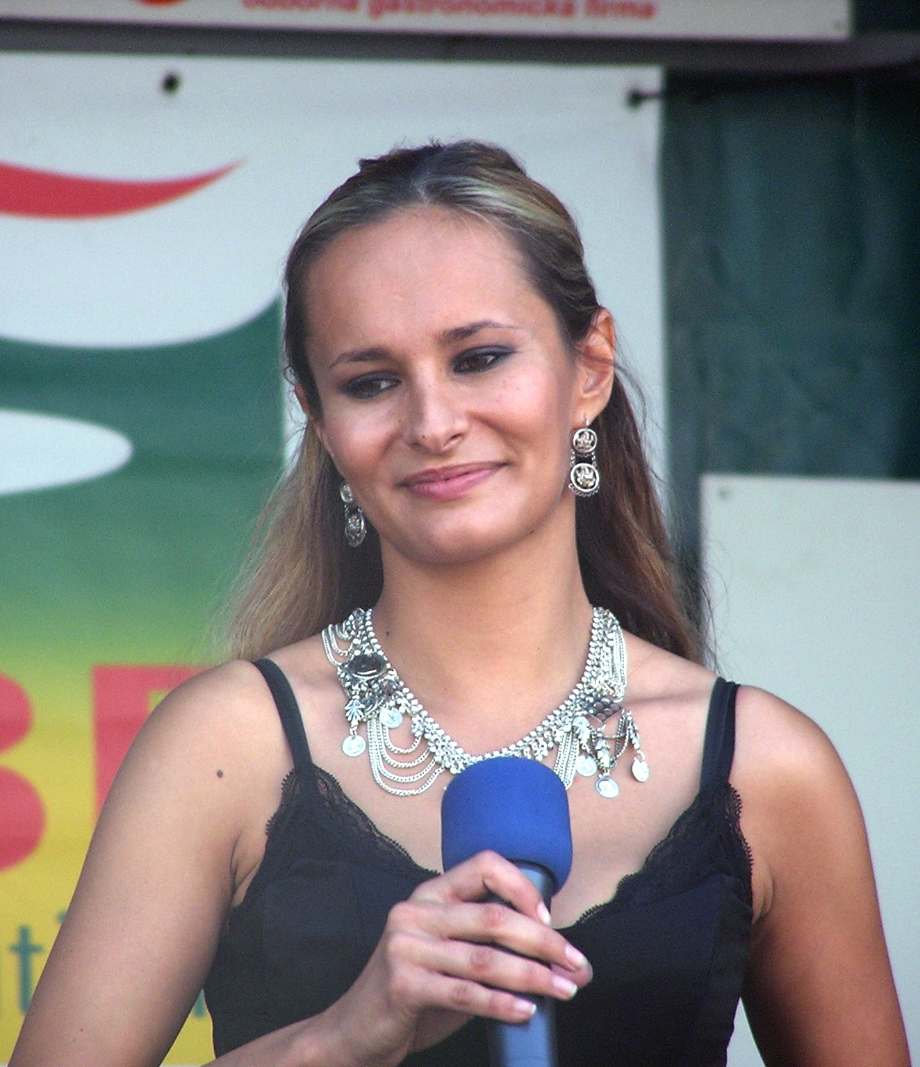 Monika Absolonová, appearing at the festival of St. Lawrence, Kladno